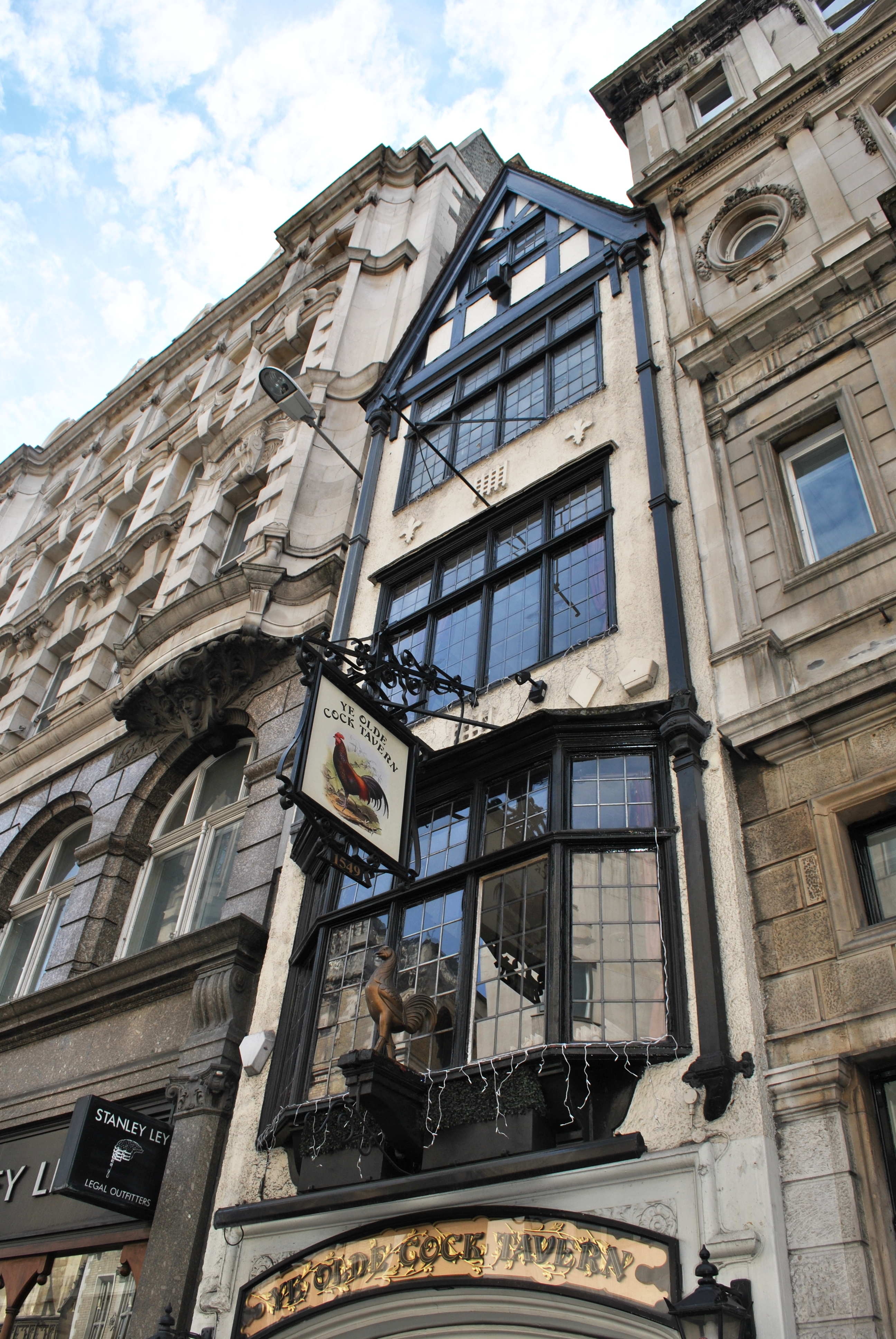 Ye Olde Cock Tavern